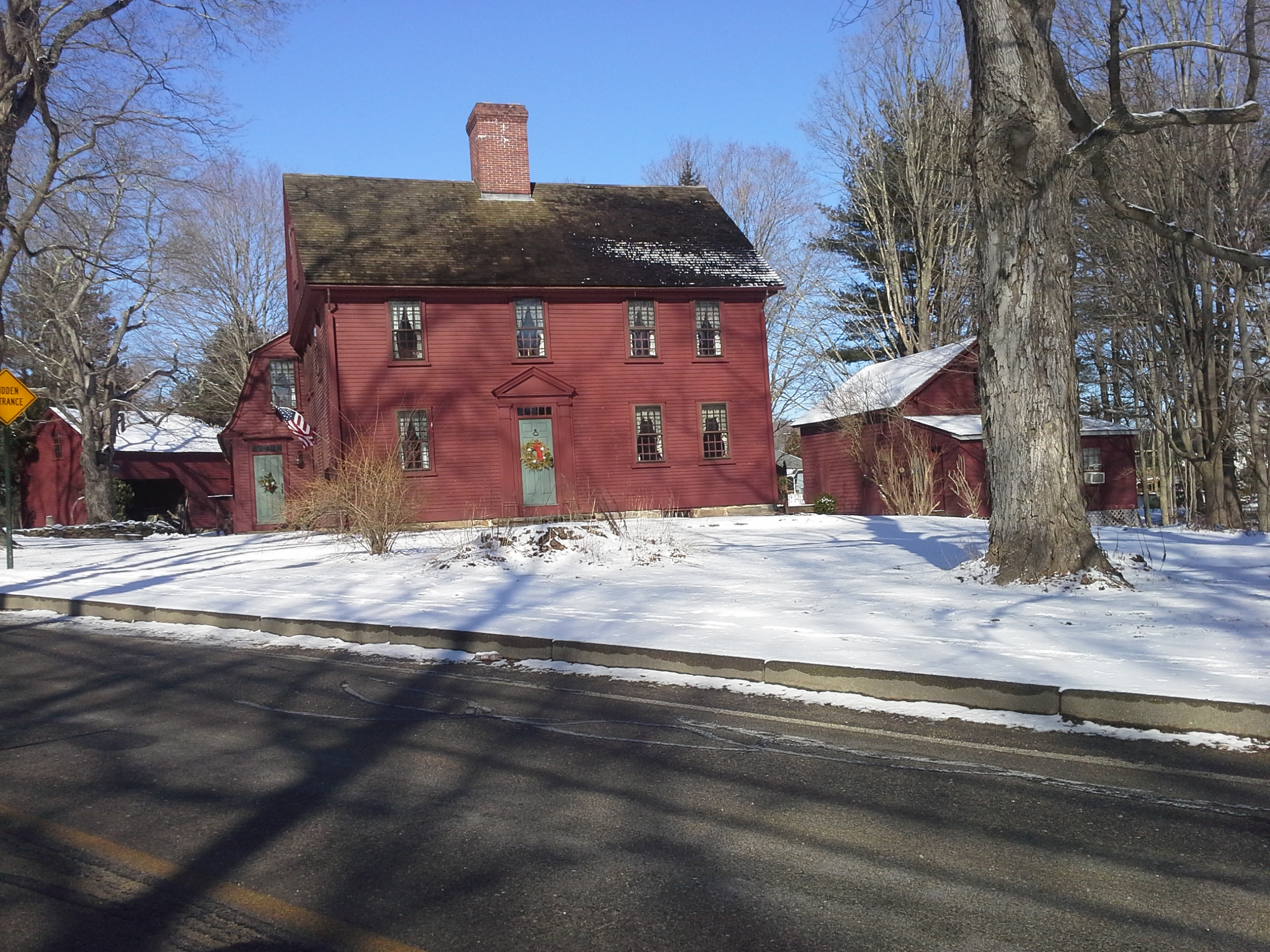 Waterman-Winsor Farm House, built in the 1700s, in Greenville RI in the town of Smithfield Rhode Island USA